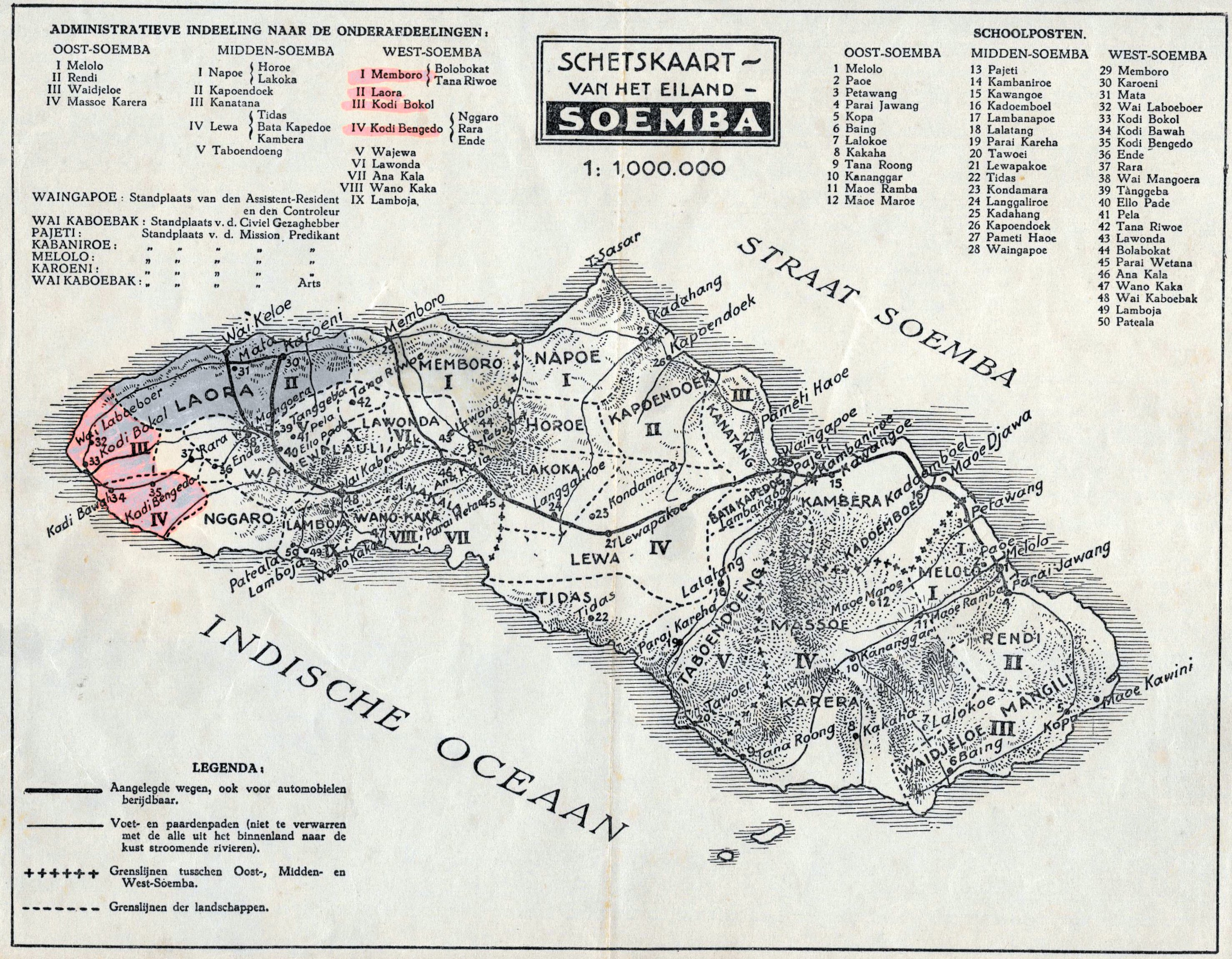 Map of Sumba (Soemba) from 1925 - scanned from Tot dankbaarheid genoopt, published by J.H. Kok in Kampen, The Netherlands in 1927